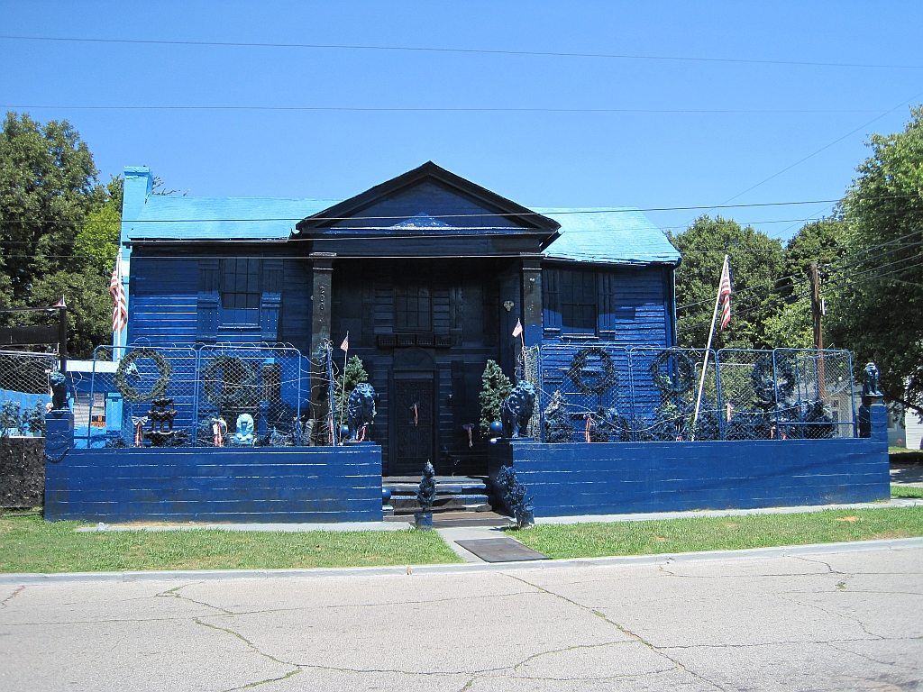 Graceland Too, an Elvis memorabilia museum at 200 East Gholson Avenue in Holly Springs, Mississippi